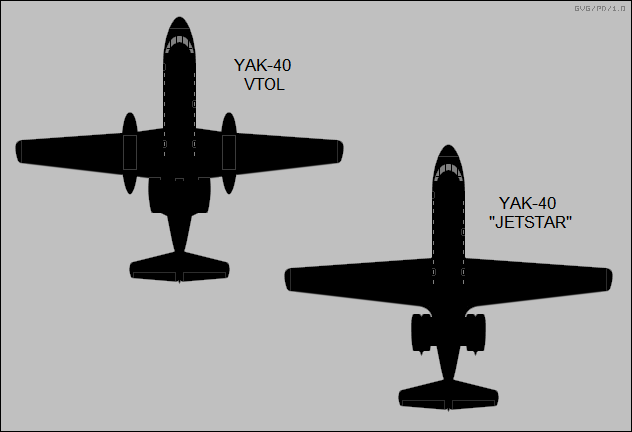 Top-view silhouette illustration of proposed four-engined and VTOL variants of the Yakovlev Yak-40 airliner.